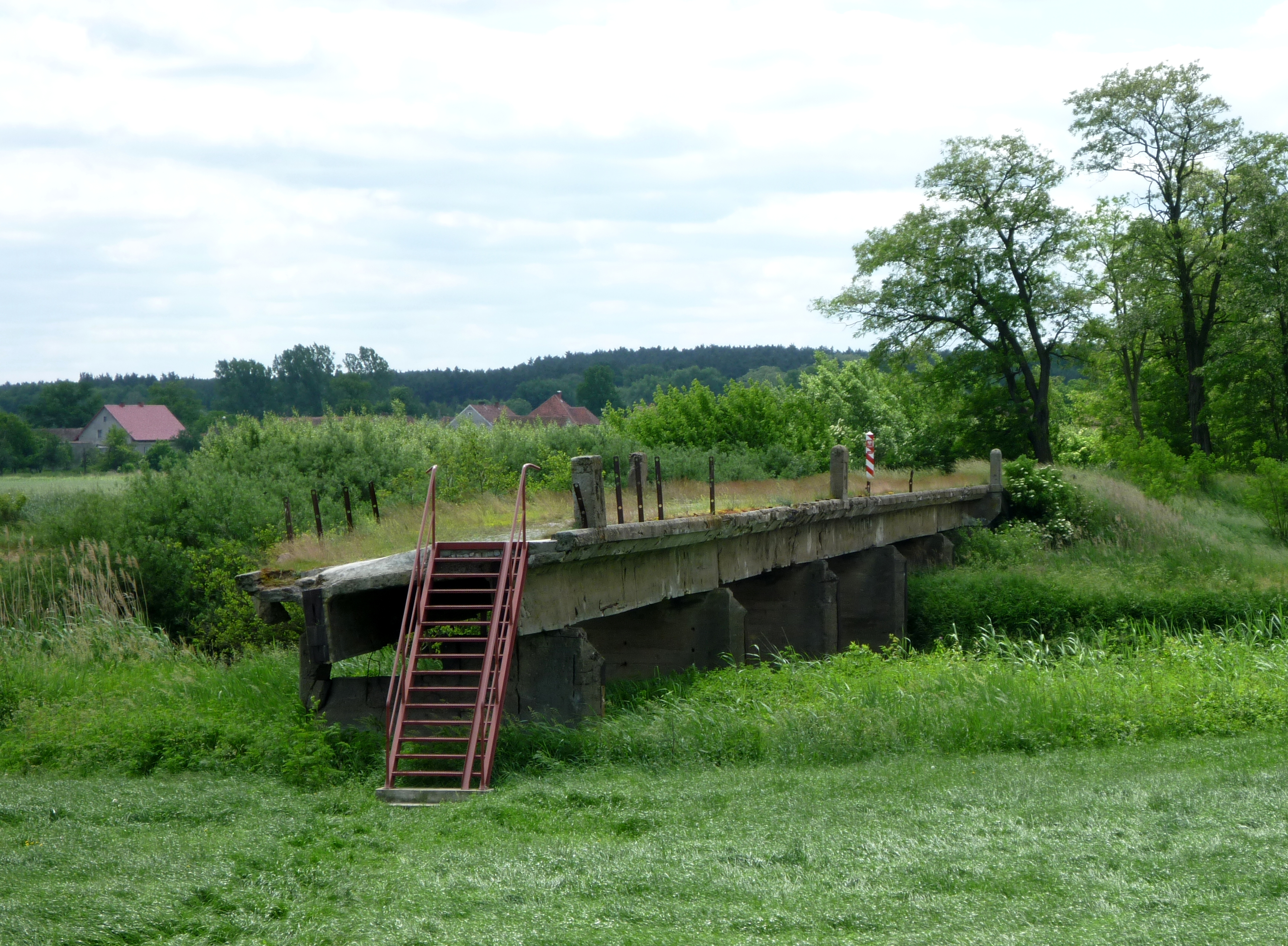 Bridge over the Neisse river between Groß Gastrose/Albertinenaue and Markosice